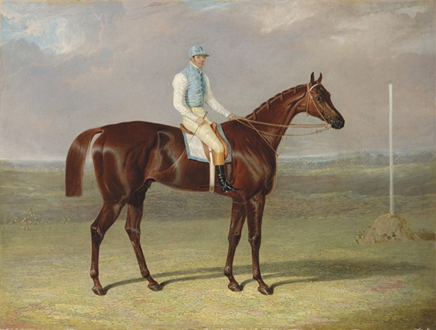 St Giles, winner of the 1832 Epsom Derby. Painting by J F Herring senior (1795-1865) Artist dead for 147 years.